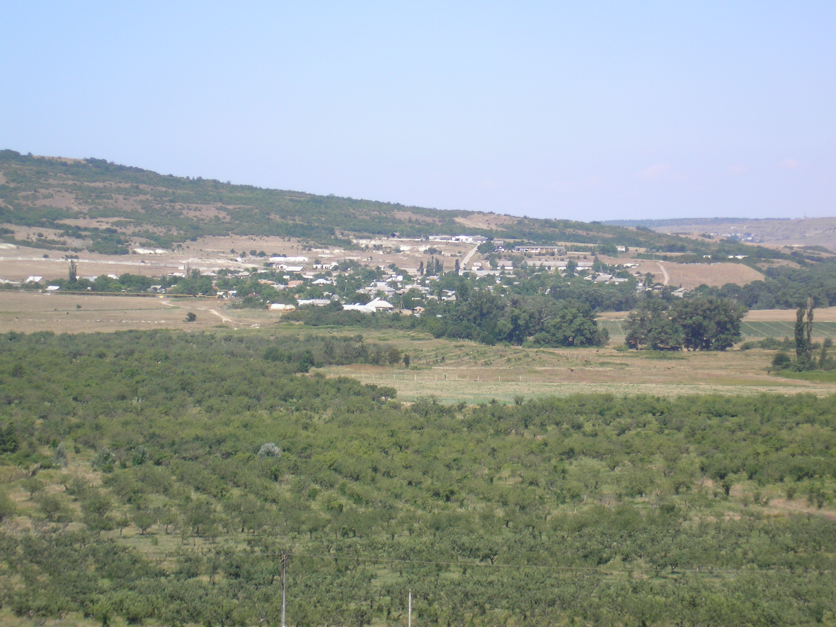 Village Zavetnoe, Bakhchisaray district, Crimea